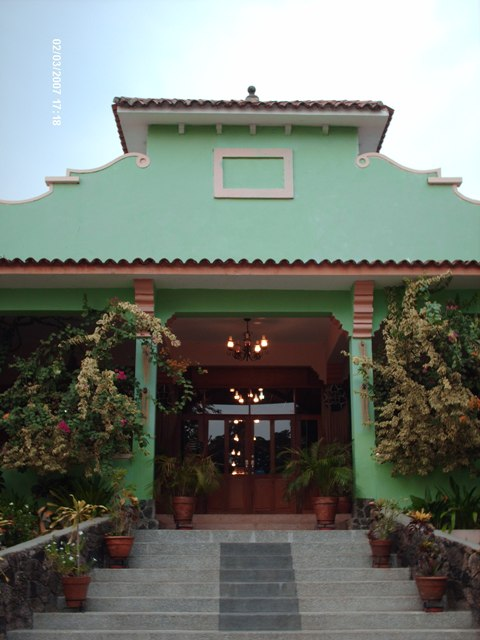 Gran Amazonas Hotel. Puerto Ayacucho, Amazonas state. Venezuela.